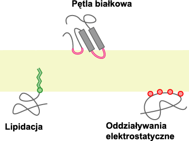 Main non-transmembrane, membrane protein motifs.